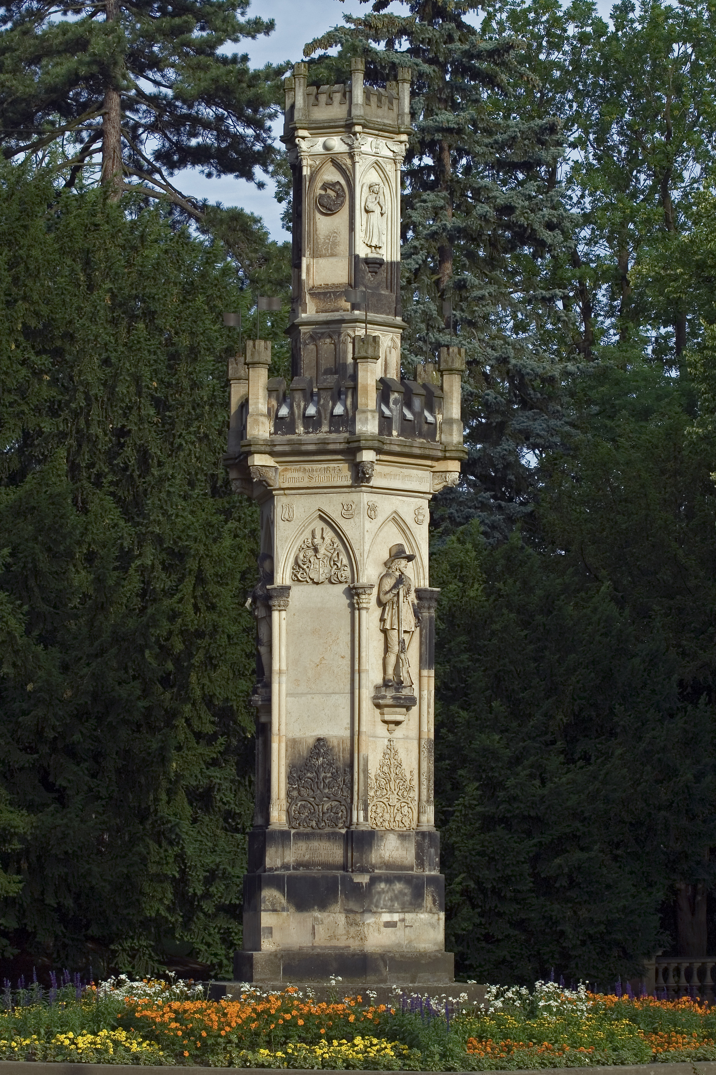 Freiberg, Saxony, Schwedendenkmal